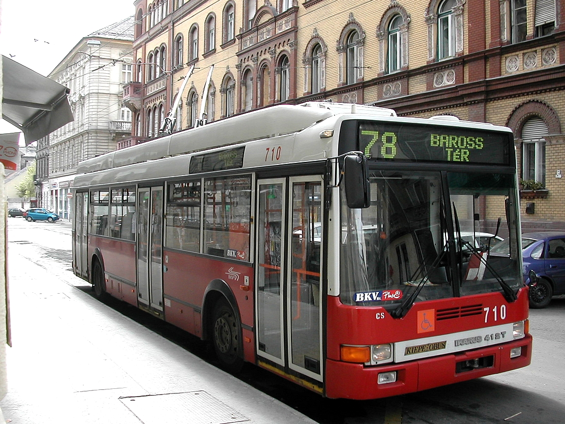 Ikarus 412T trolleybus in Budapest